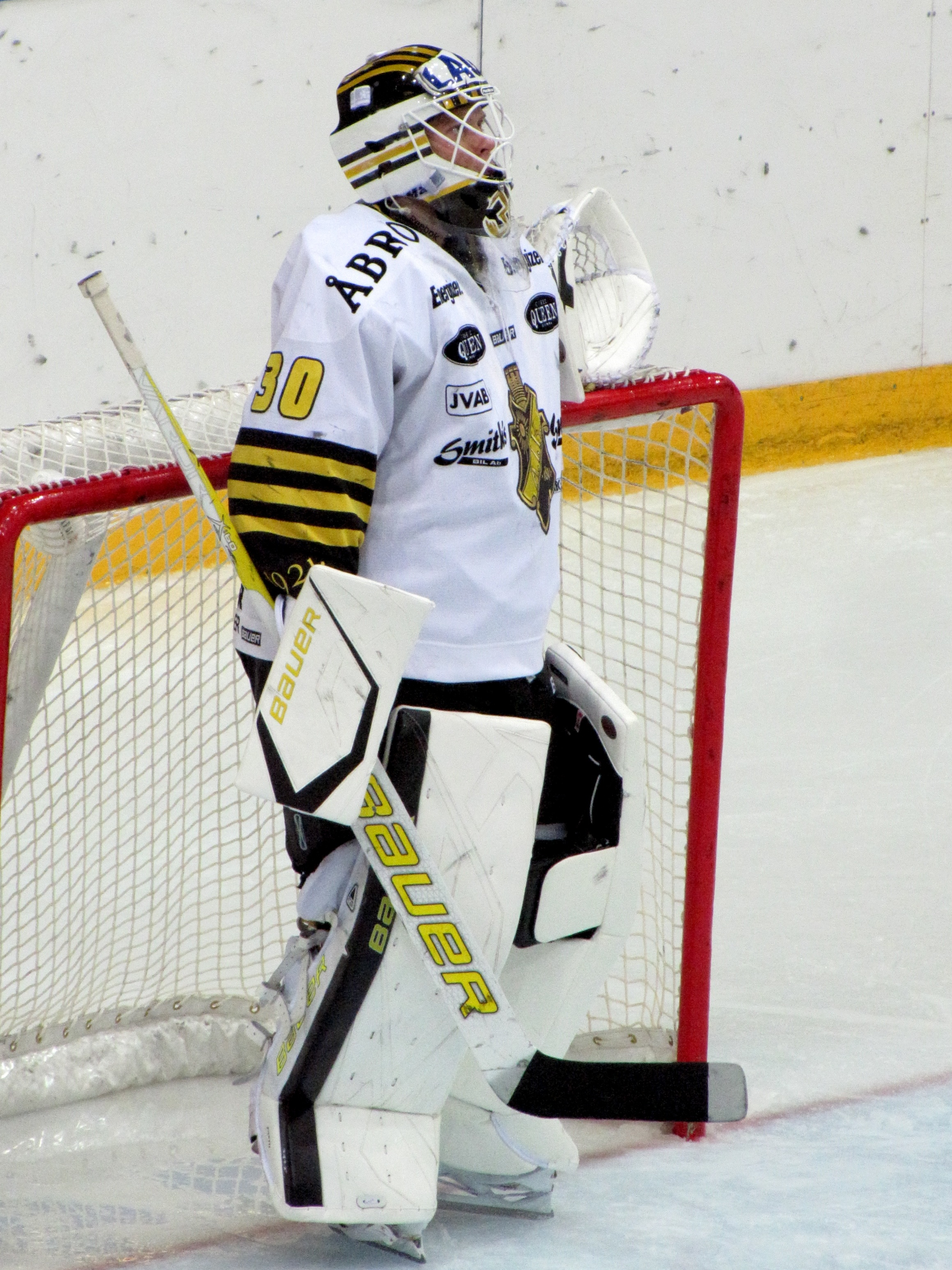 Swedish ice hockey goaltender Viktor Fasth in a pre-season game between his Stockholm AIK and Tampere Ilves of Finland in August, 2011.